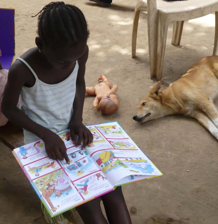 One of our Clubs raised enough funding to cover 12 years of education for a little girl 'called Ba'ami in The Gambia. This photo captures the power of books and her desire for learning – the doll is put aside, and even the dog is quiet.